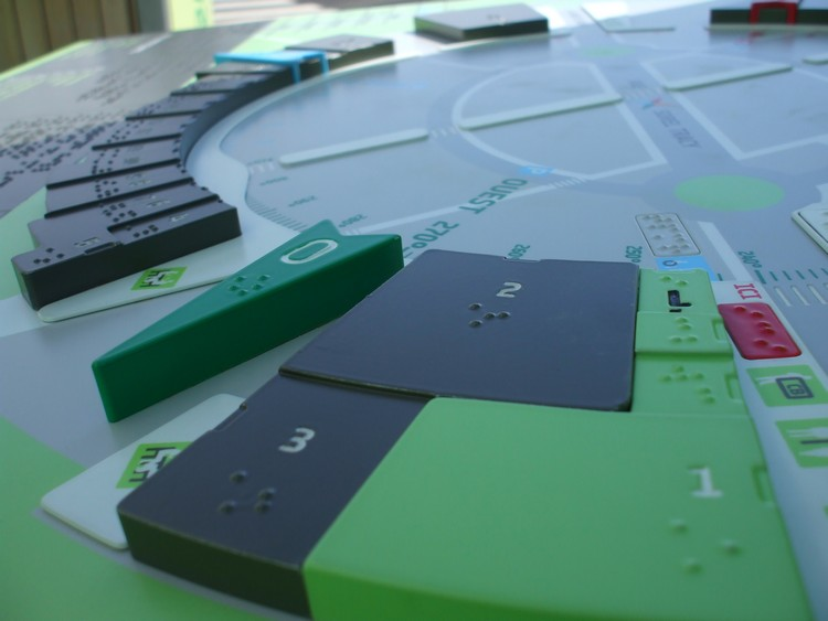 table